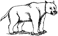 Now extinct, some Amphicyonidae (bear-dogs) may have looked like this.